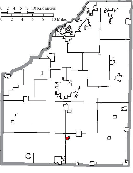 Map of the municipal and township boundaries of Wood County, Ohio, United States, as of the 2000 census, with the location of the village of Cygnet highlighted. Township borders are shown only in unincorporated areas in order to differentiate incorporated and unincorporated areas more clearly.